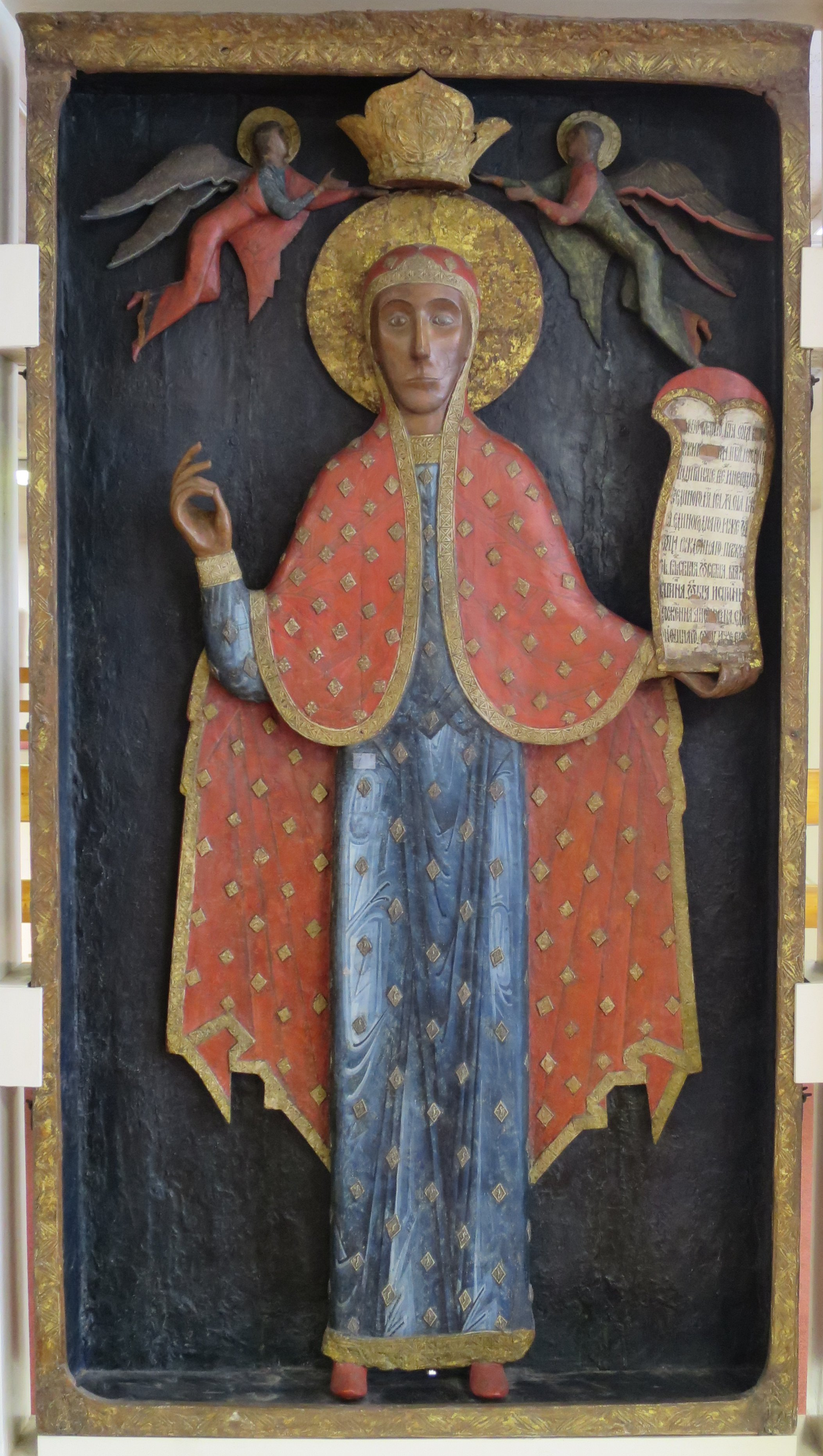 Russian icon St. Paraskeva-Friday (in case), carved and painted wood, second half of 17th century, Arkhangelsk Regional Museum of Fine Arts